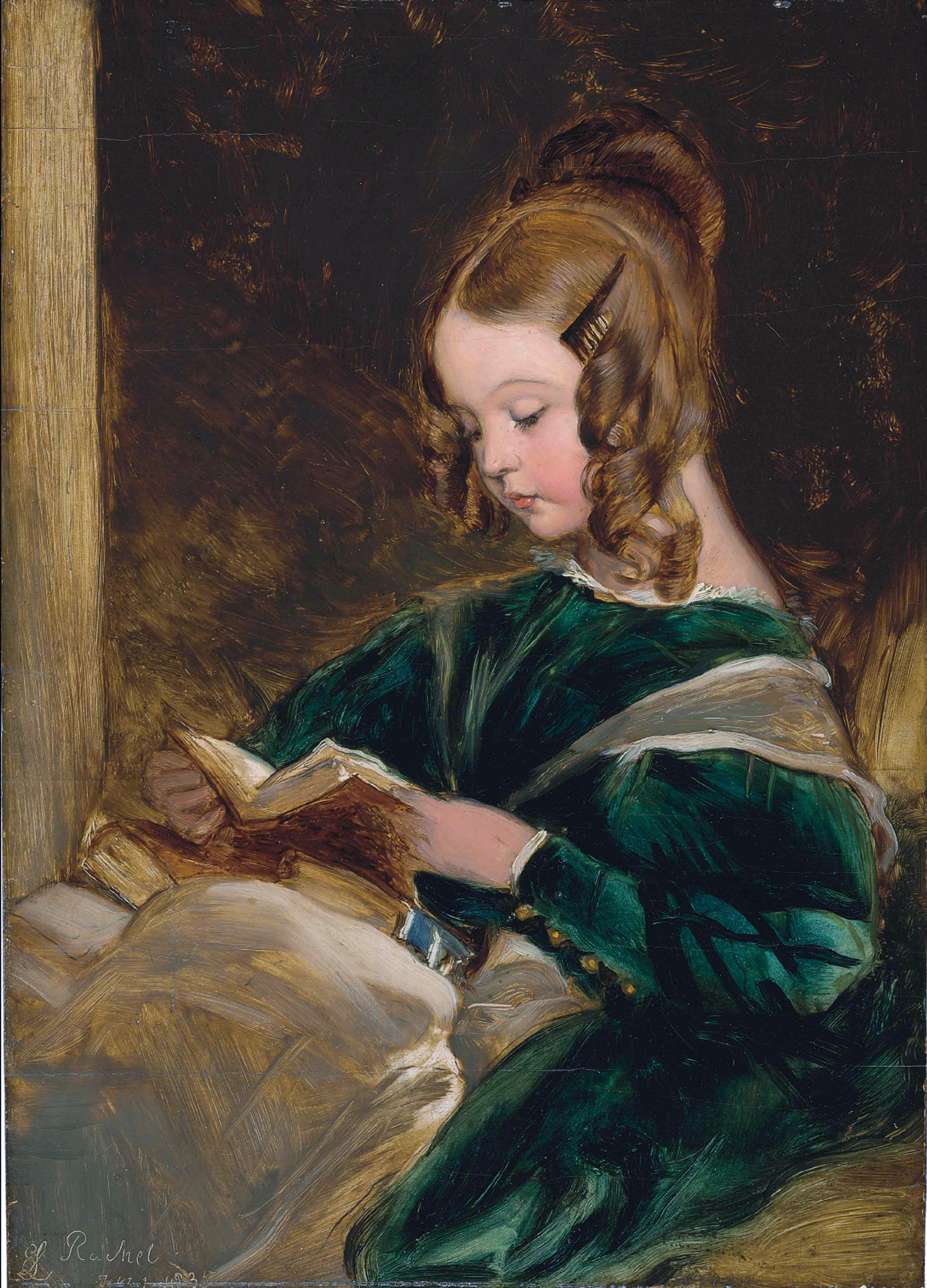 Study of Rachel Russell (1826-1898), daughter of Georgina, the second wife of John, sixth Duke of Bedford oil on panel 35.5 x 25.4 cm signed: EL/Rachel/July 1835